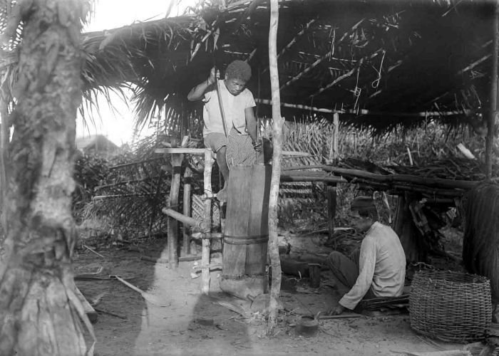 A temprary smithy in Tifonis